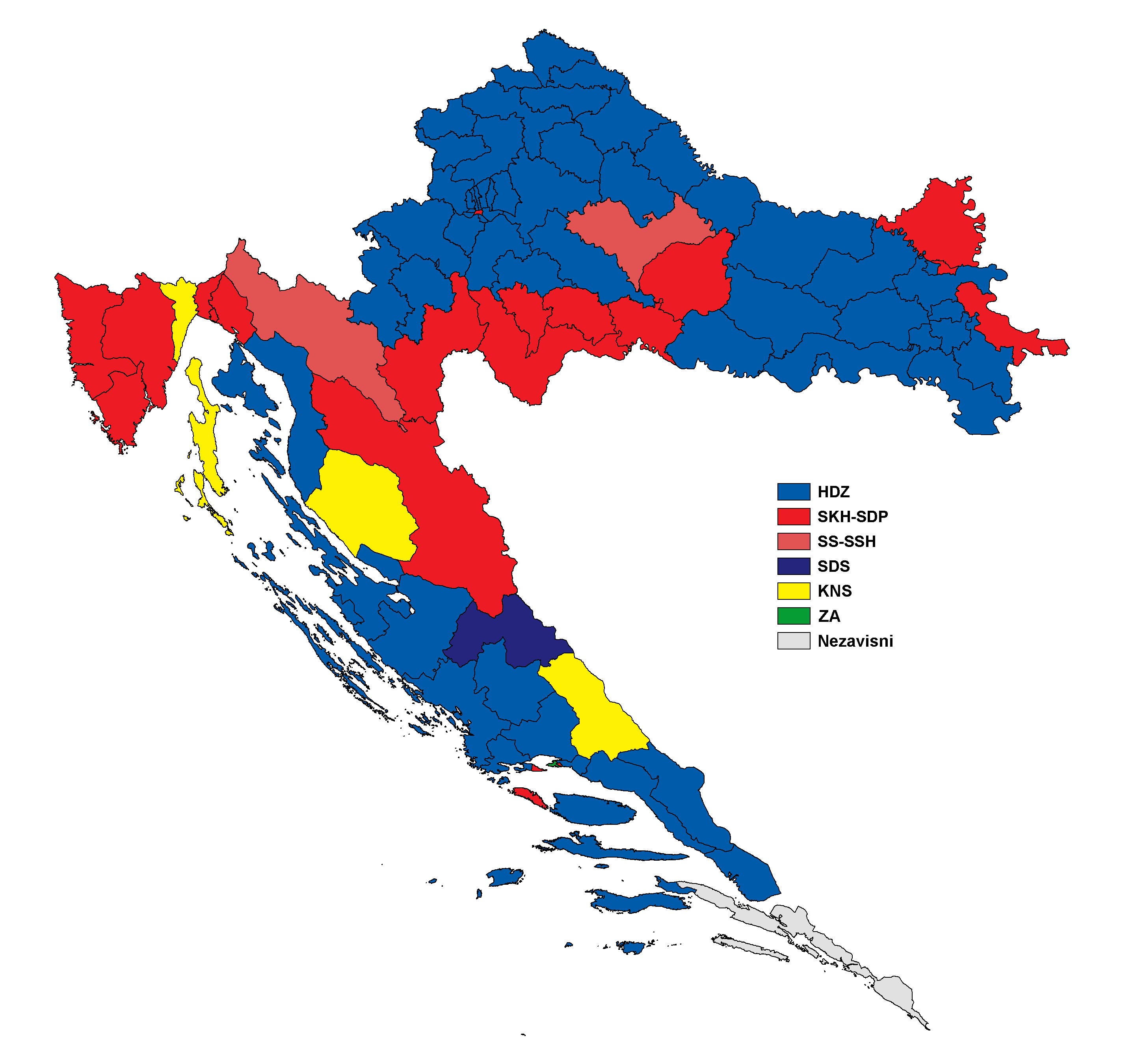 Results of the Croatian parliamentary elections held on 22 April and 6 May 1990, for Council of Socio-Political Organisations (Društveno-političko vijeće, DPV), by electoral districts. Sources: Mladen Klemenčić: lzbori u Hrvatskoj 1990 - elektoralnogeografska analiza odabranih primjera